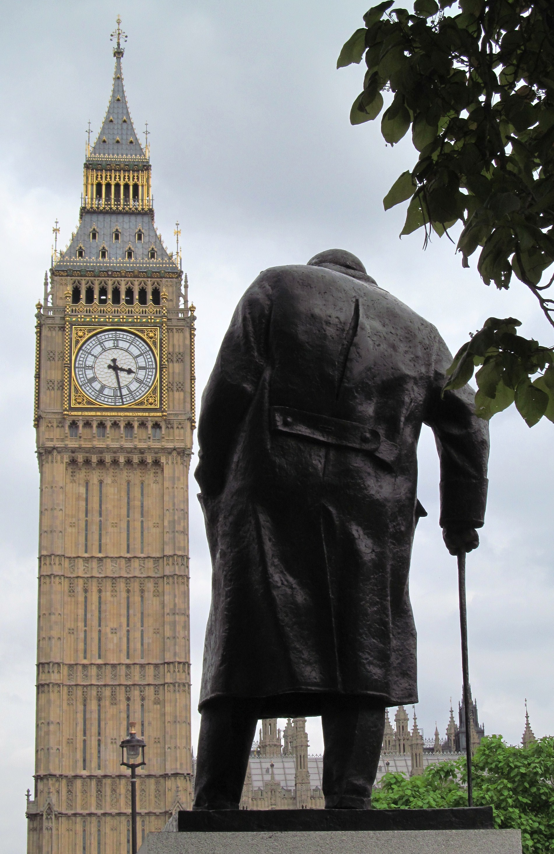 London 068 Parliament and Churchill